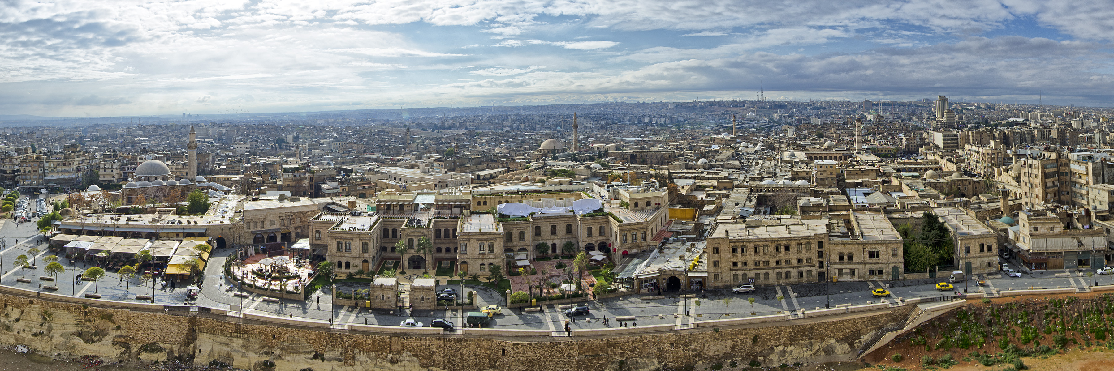 Aleppo old city, panoramic view